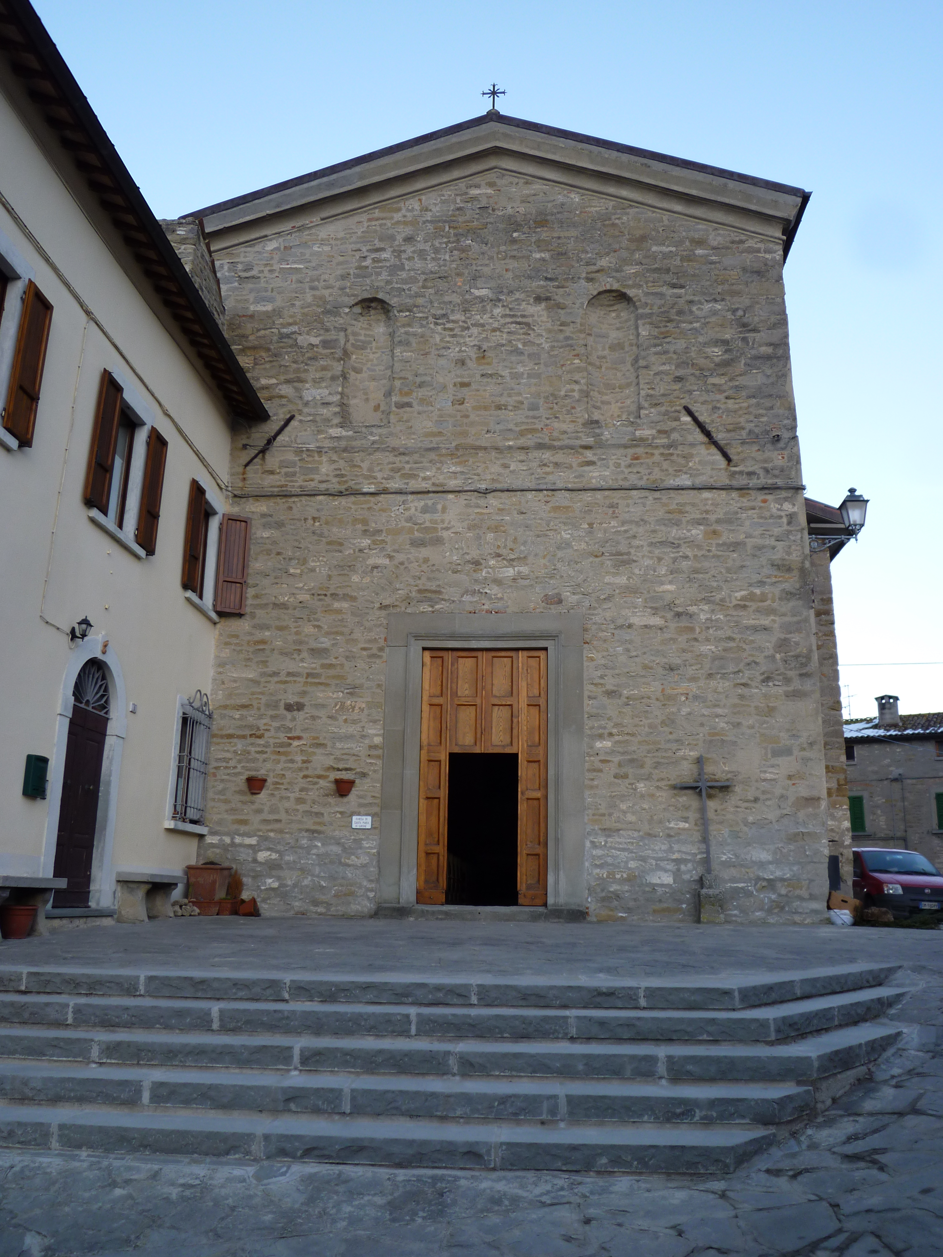 The pieve of Santa Maria in Girone in Portico di Romagna, in the province of Forlì-Cesena, Emilia-Romagna